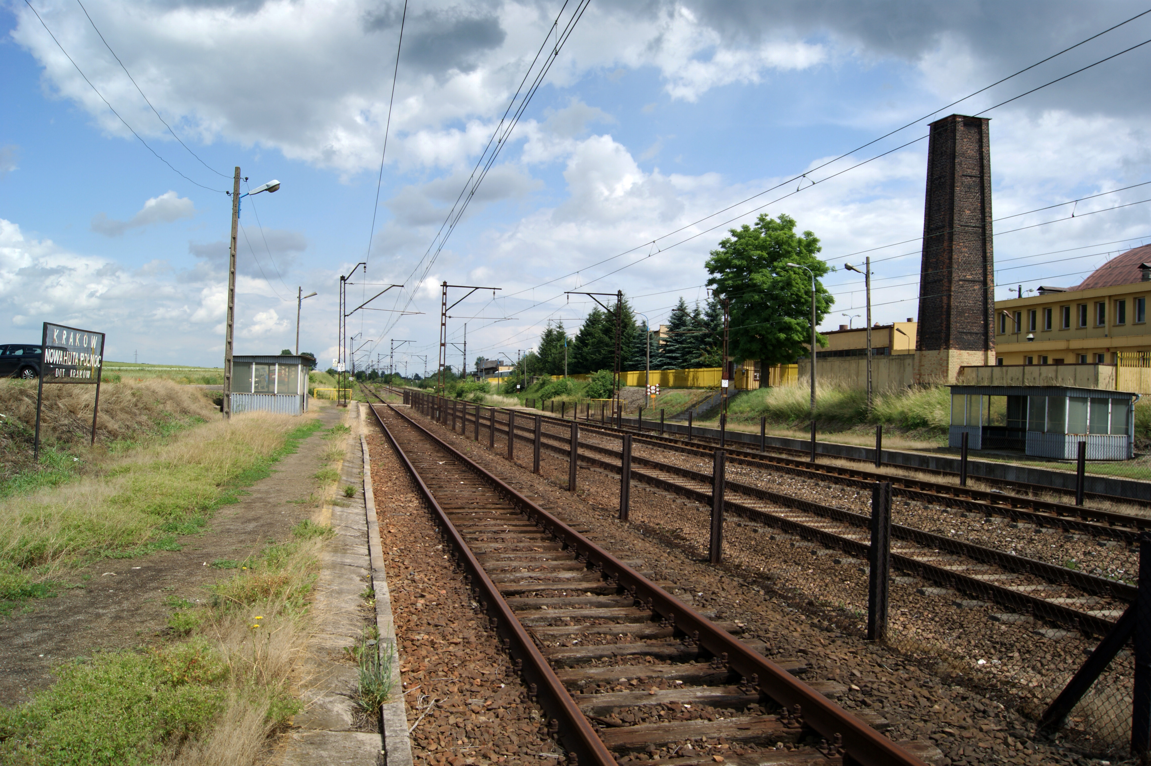 Krakow Nowa Huta Polnoc train station, Splawy street, Nowa Huta, Krakow, Poland